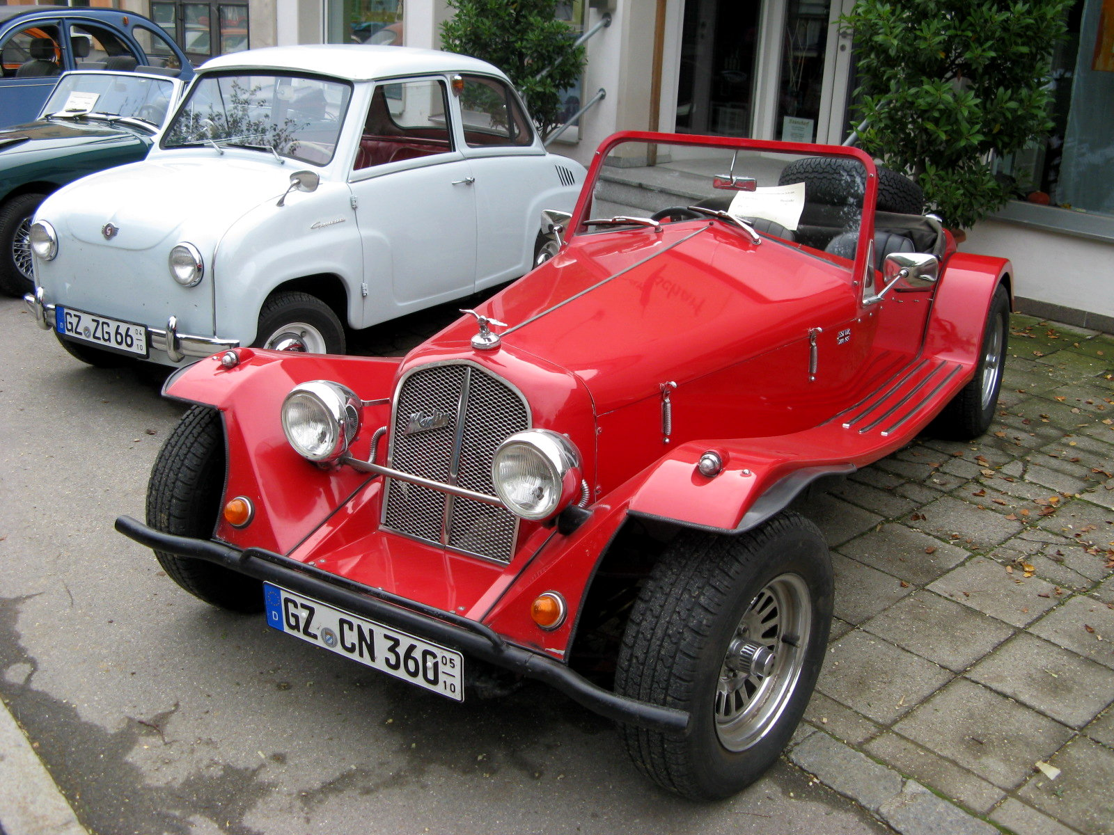 1966 Marlin